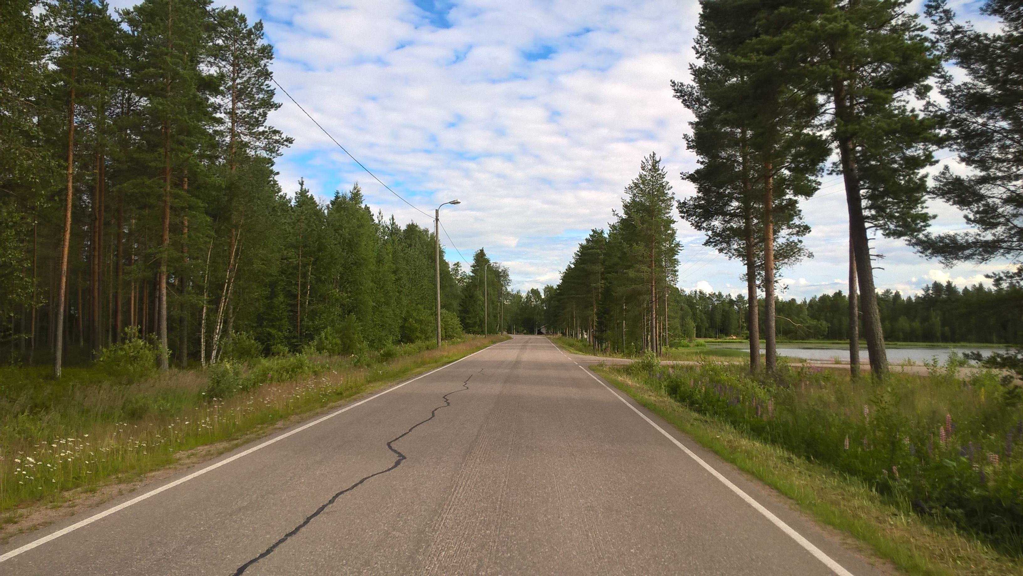 The village of Hetekylä in Pudasjärvi, Finland, seen from the Paavolankuiva and Sammakkolampi area towards South-East, along the Hetekyläntie road (connecting road 8361).